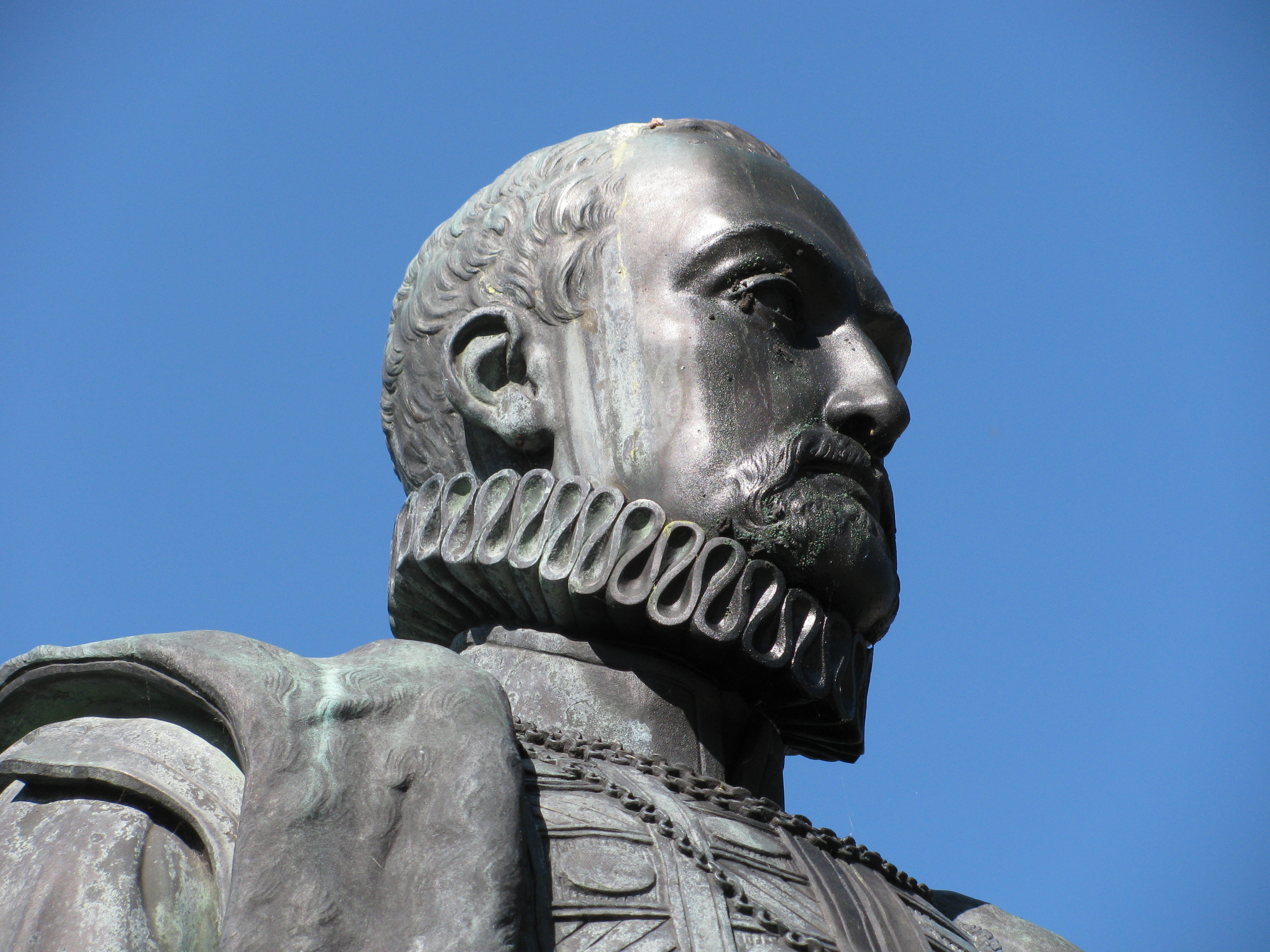 Germany - Baden-Württemberg - Bodenseekreis - Heiligenberg: Joachim Graf zu Fürstenberg